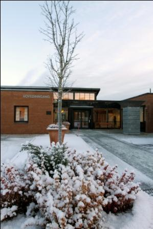 Møller kompetansesenter, the building